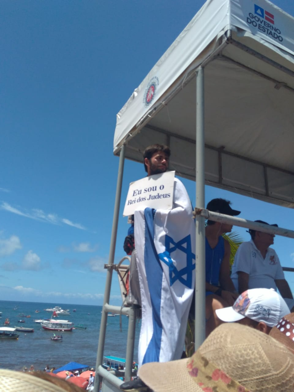 Possible patient of messiah syndrome, perched at the Military Police post at the Yemanjá party - February 2, 2019 in Salvador, Bahia, Brazil. Clad in the flag of the State of Israel, he holds a sign saying: "I am the king of the Jews."